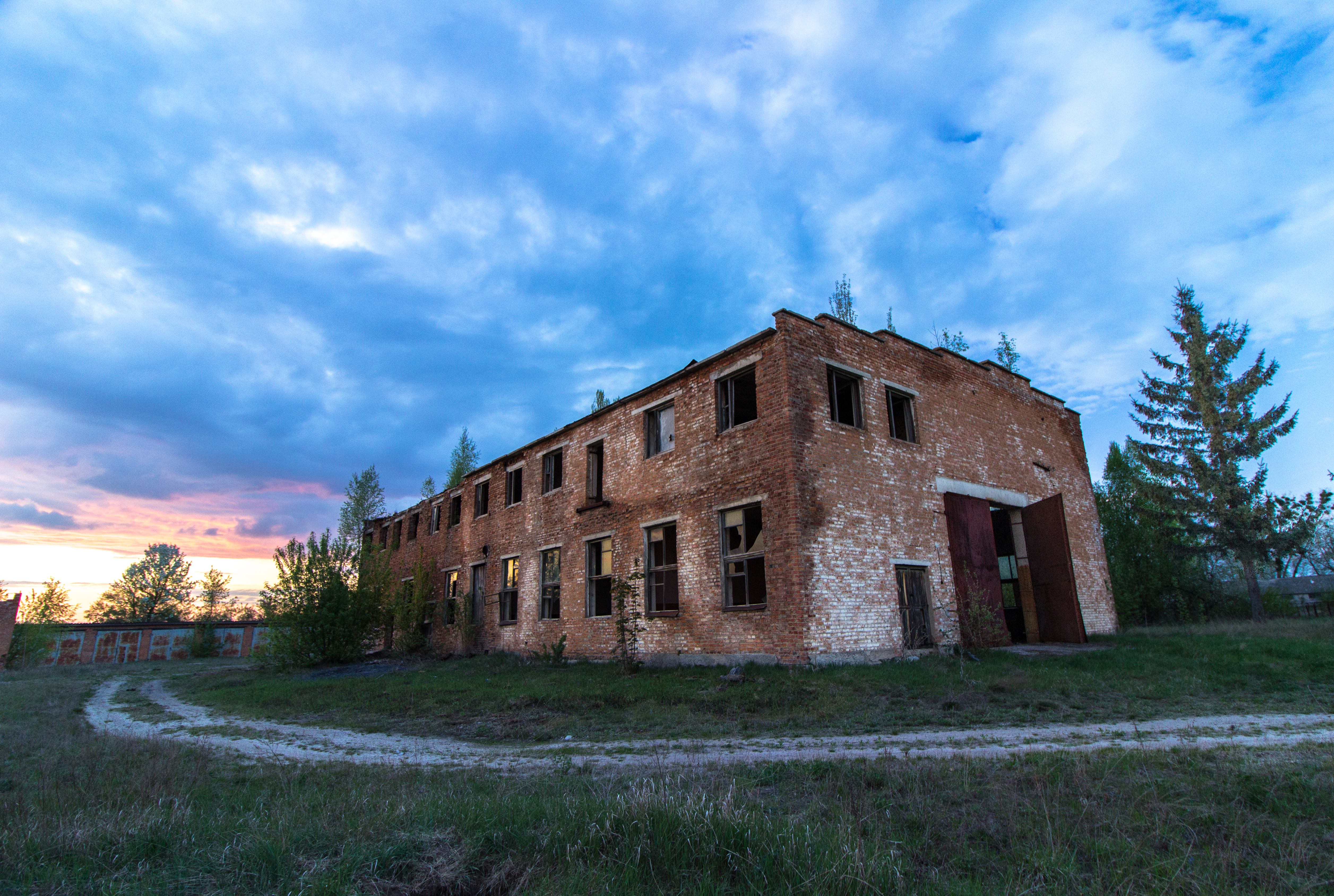 time is up